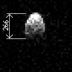 GOLDSTONE DELAY-DOPPLER IMAGE OF en:1999 RQ36, later: Bennu, "266" m is the half diameter